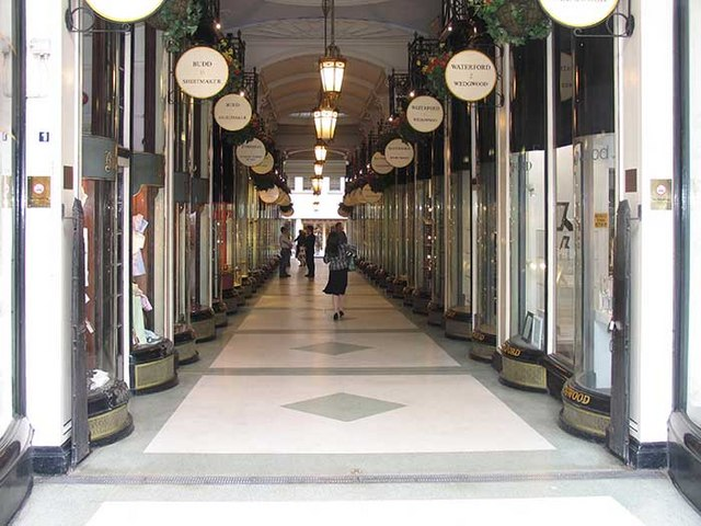 Arcade